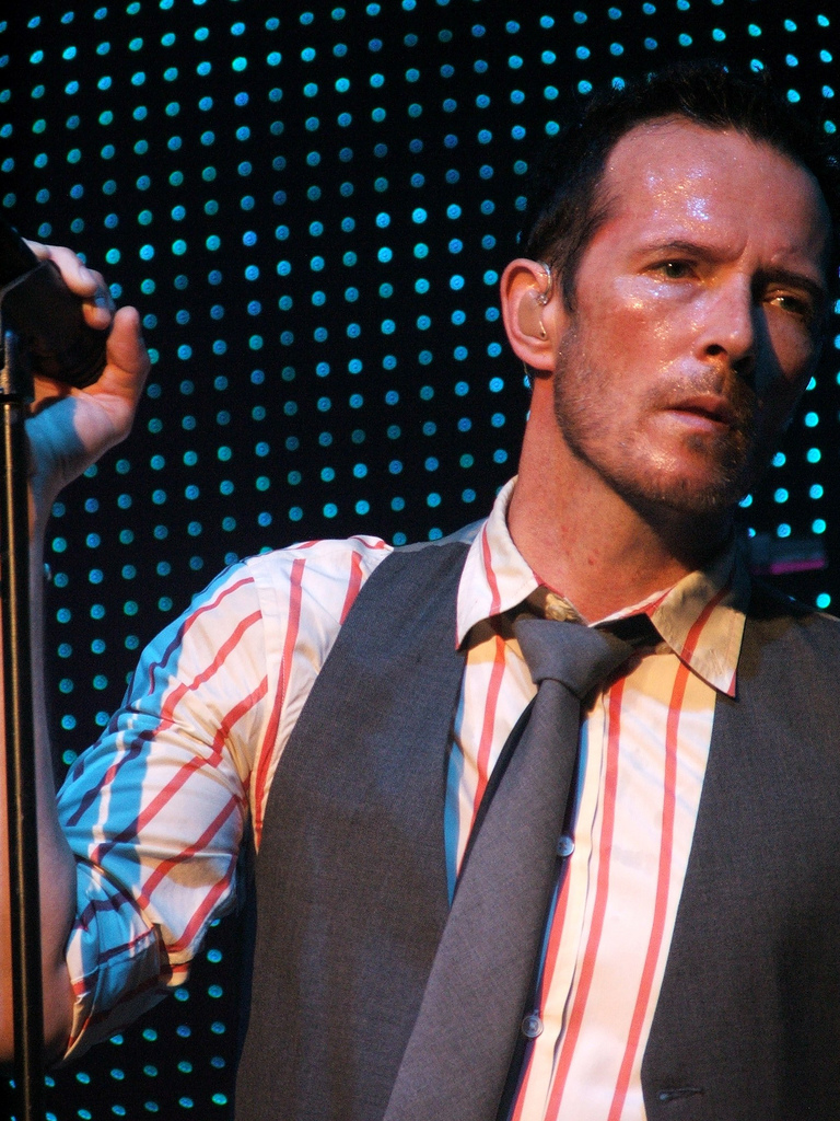 Scott Weiland onstage with a mic